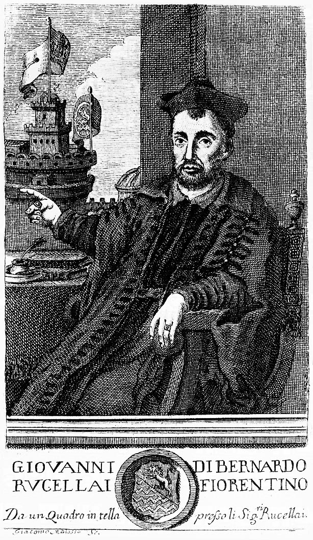 Portrait of Giovanni di Bernardo Rucellai (1475 – 1525), engraved by Giacomo Malosso from a painting owned by the Rucellai family, 19th C.